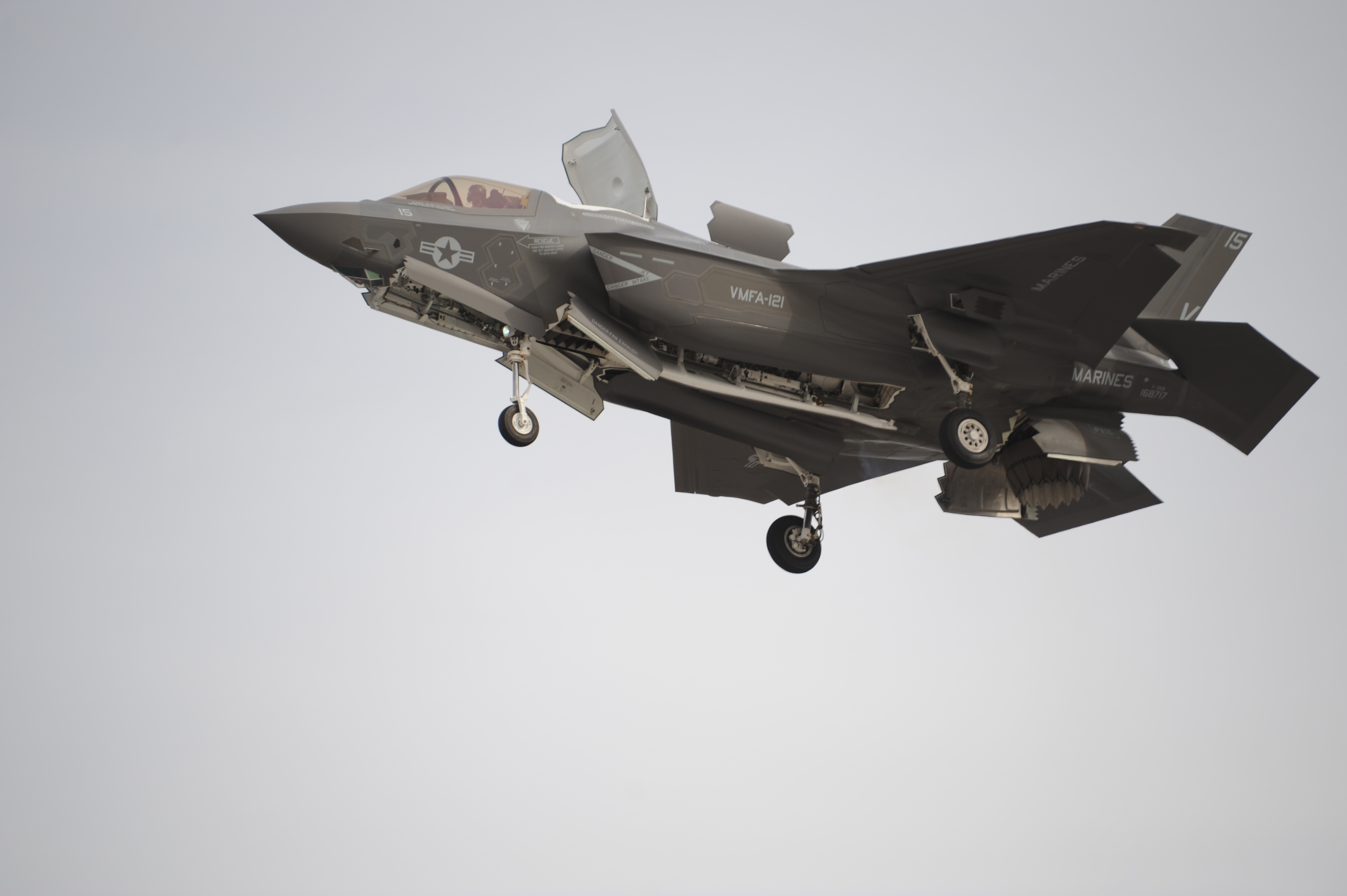 YUMA, Ariz. (March 21, 2013) An F-35B Lightning II Joint Strike Fighter assigned to Marine Fighter Attack Squadron (VMFA) 121 prepares to make a vertical landing at Marine Corps Air Station Yuma, Ariz. This marks the first vertical landing of a Marine Corps F-35B outside of a testing environment. (U.S. Marine Corps photo by Cpl. Ken Kalemkarian/Released) 130321-M-YB904-320 Join the conversation navylive.dodlive.mil